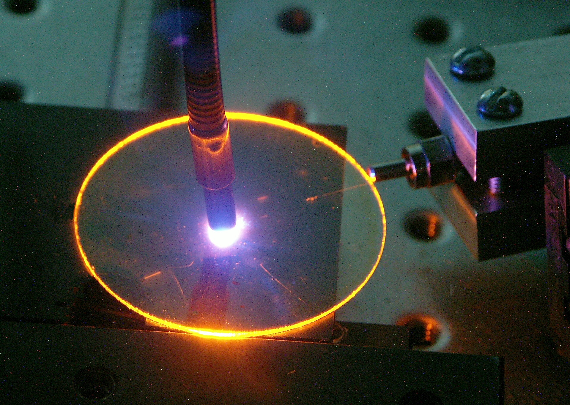 photo of optical fiber